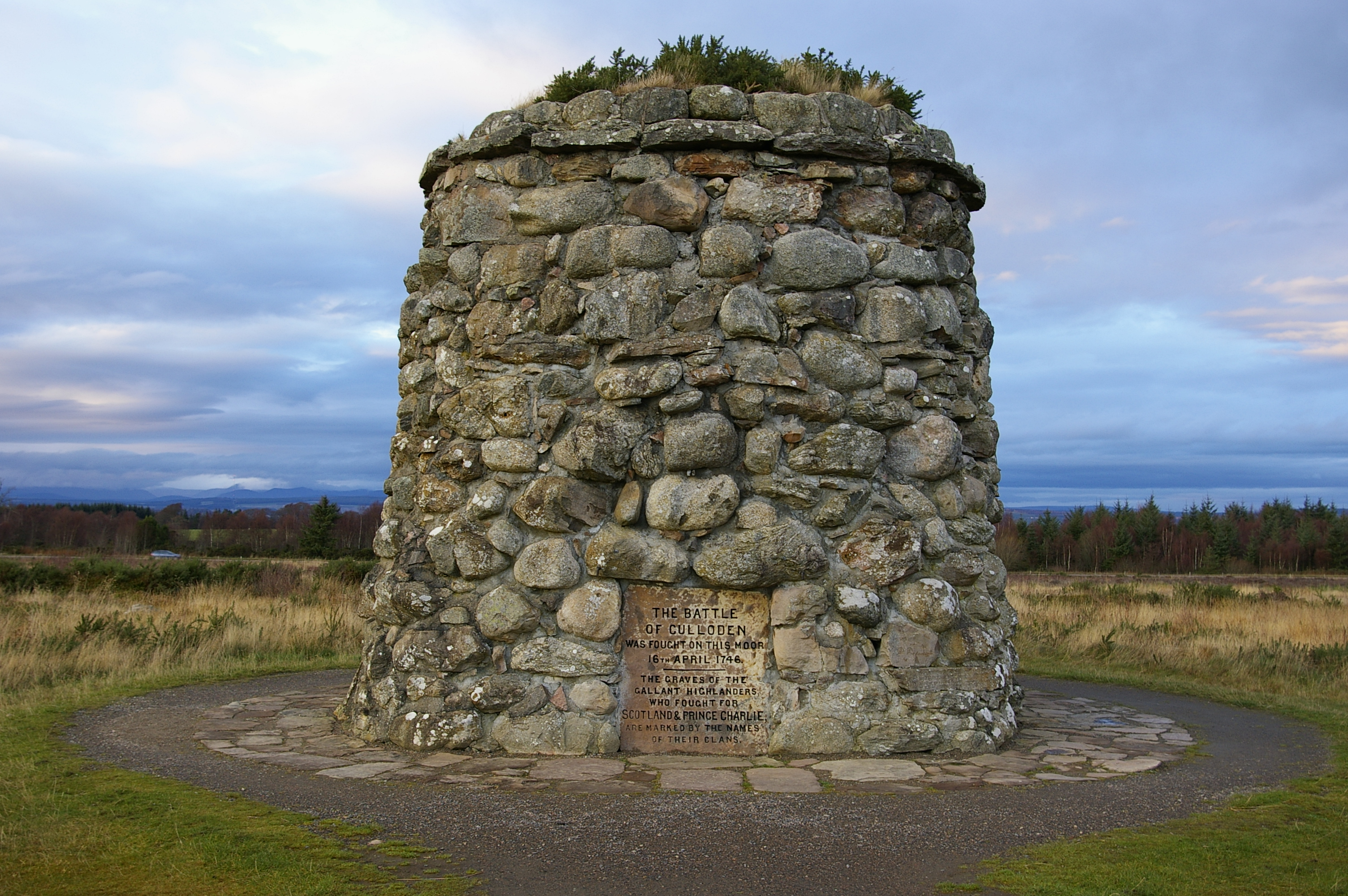 Culloden battlefield memorial